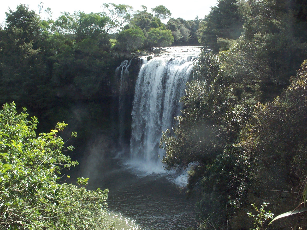 Photo of Rainbow Falls near Kerikeri, New Zealand.